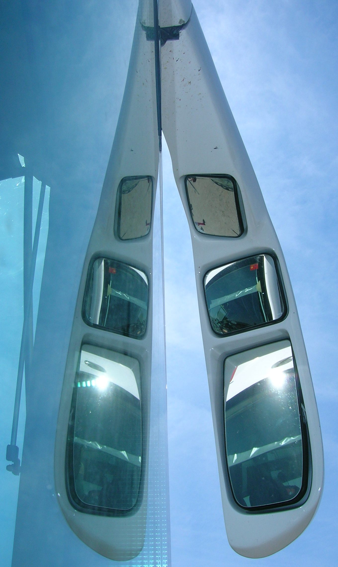 Triple rear-view side mirror of a Irizar Eurorider 38 bus.